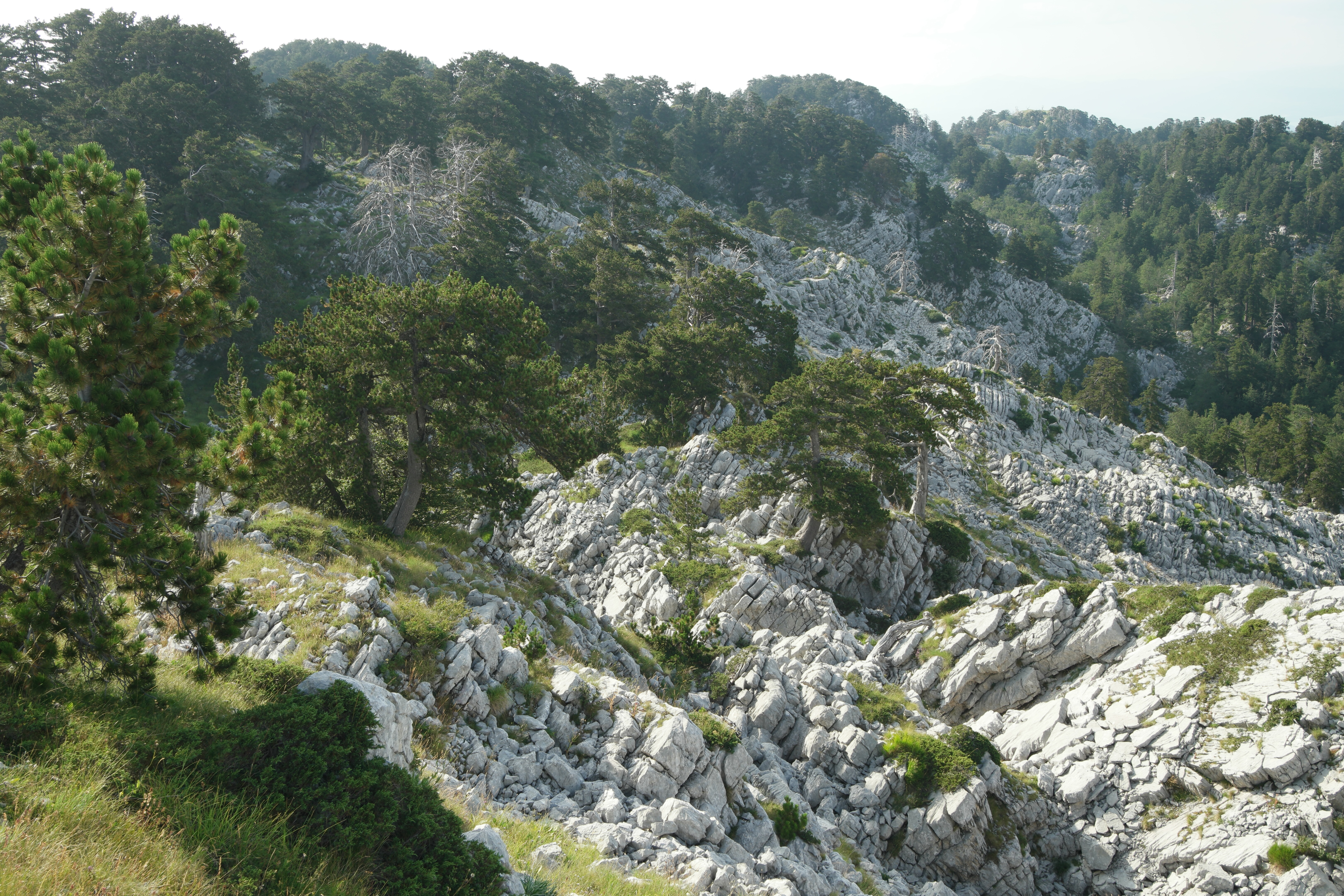 Schichttreppen at the northern slope of the Jastrebica ridge below the Opuvani do cold-air pool